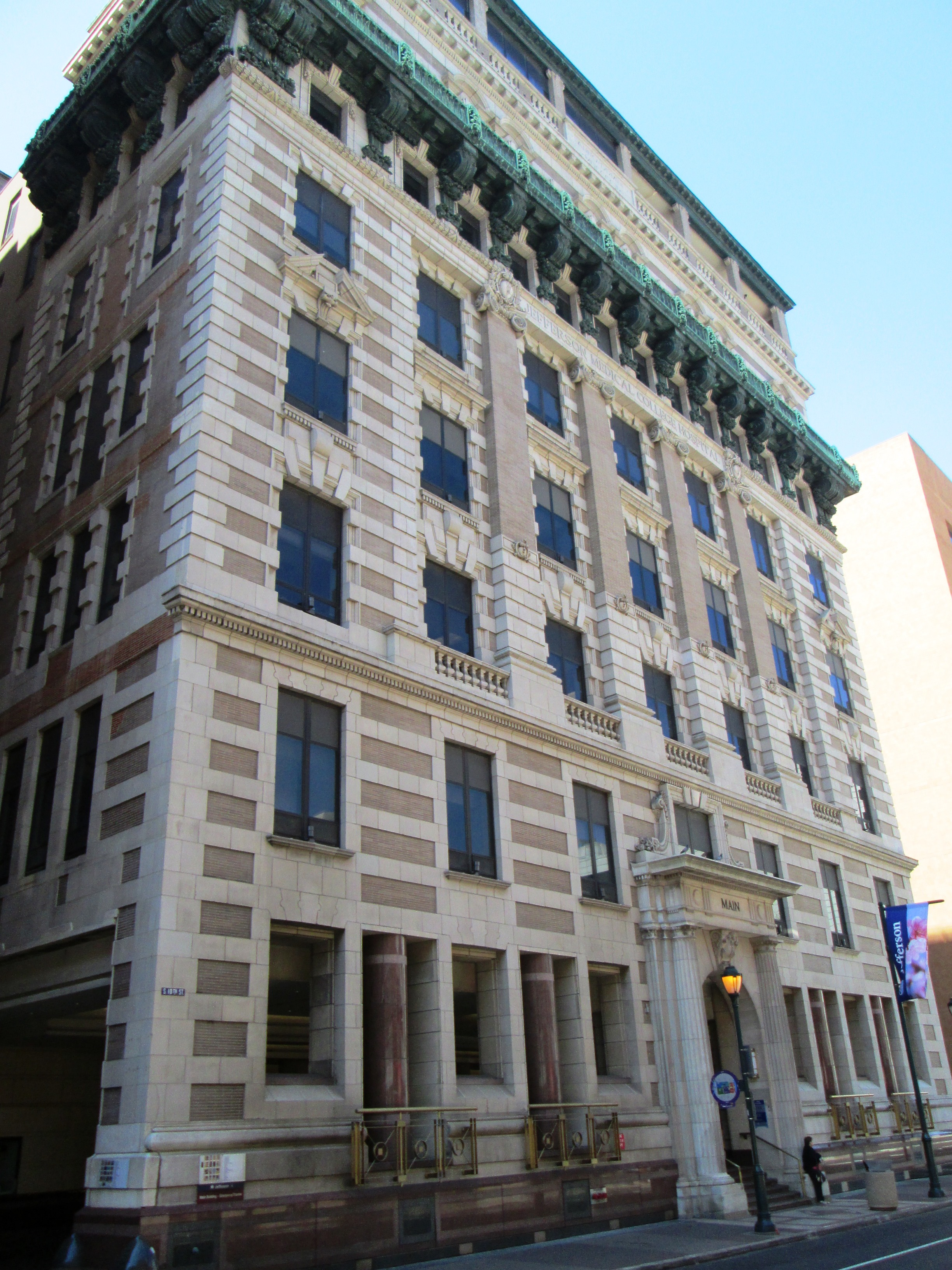 The Main Building of Thomas Jefferson University's Jefferson Medical College at 132 S. 10th Street between Sansom and Walnut Streets in Center City, Philadelphia